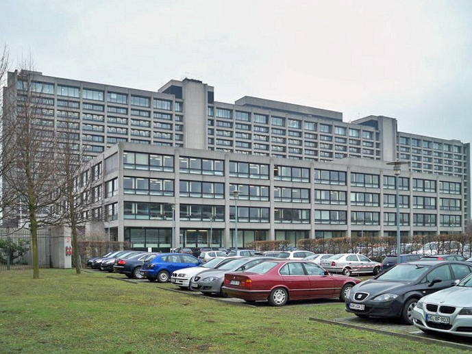 North side of the Deutsche Bundesbank building in Frankfurt, Germany.